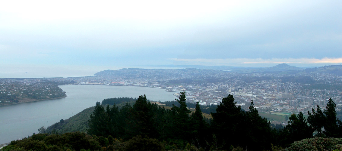 Central Dunedin and the head of the Otago Harbour, New Zealand, as seen from Signal Hill